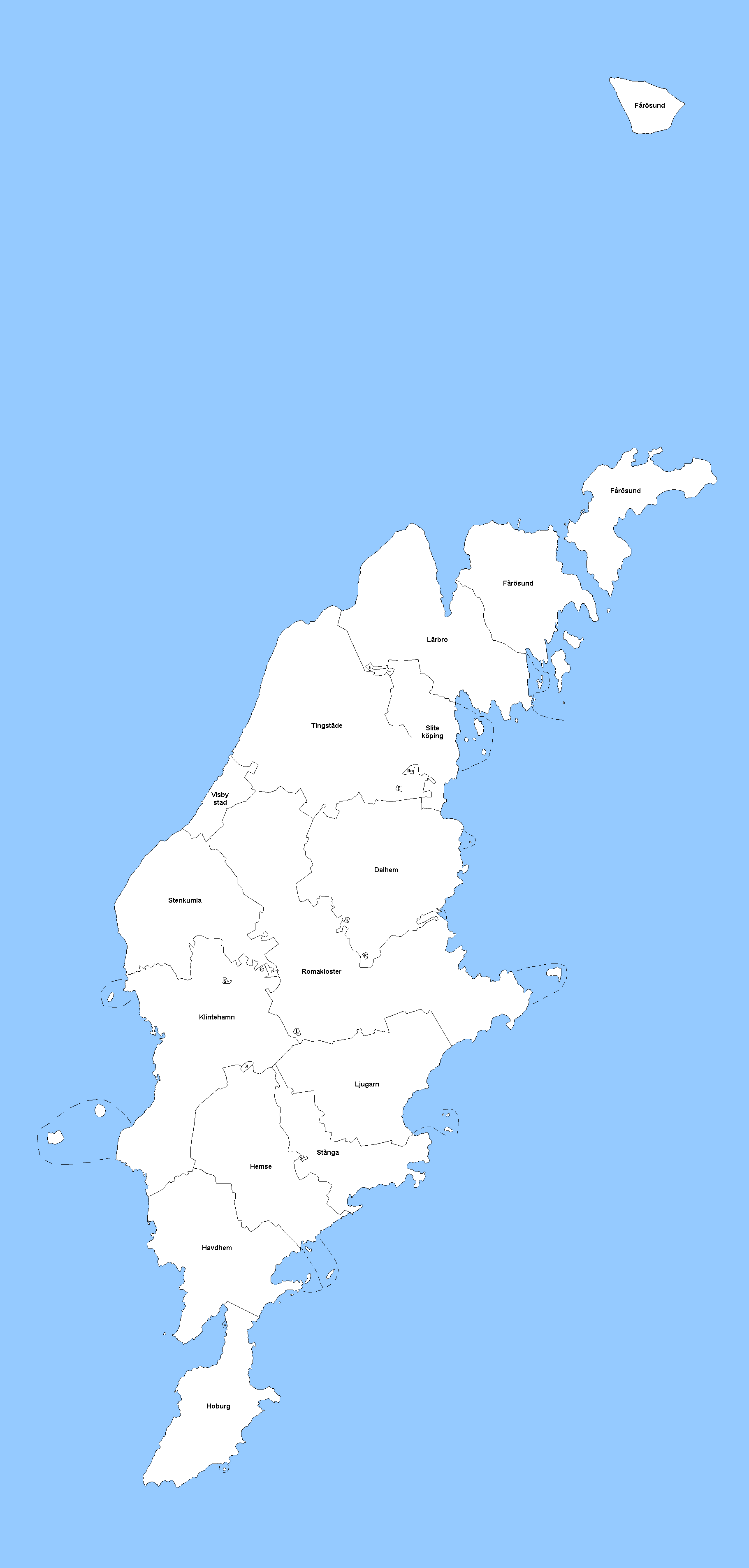 Old municipalities in Gotland, 1952.